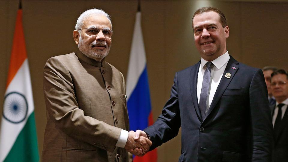 PM Narendra Modi and Russian PM Dmitry Medvedev at Nay Pyi Taw, Myanmar.